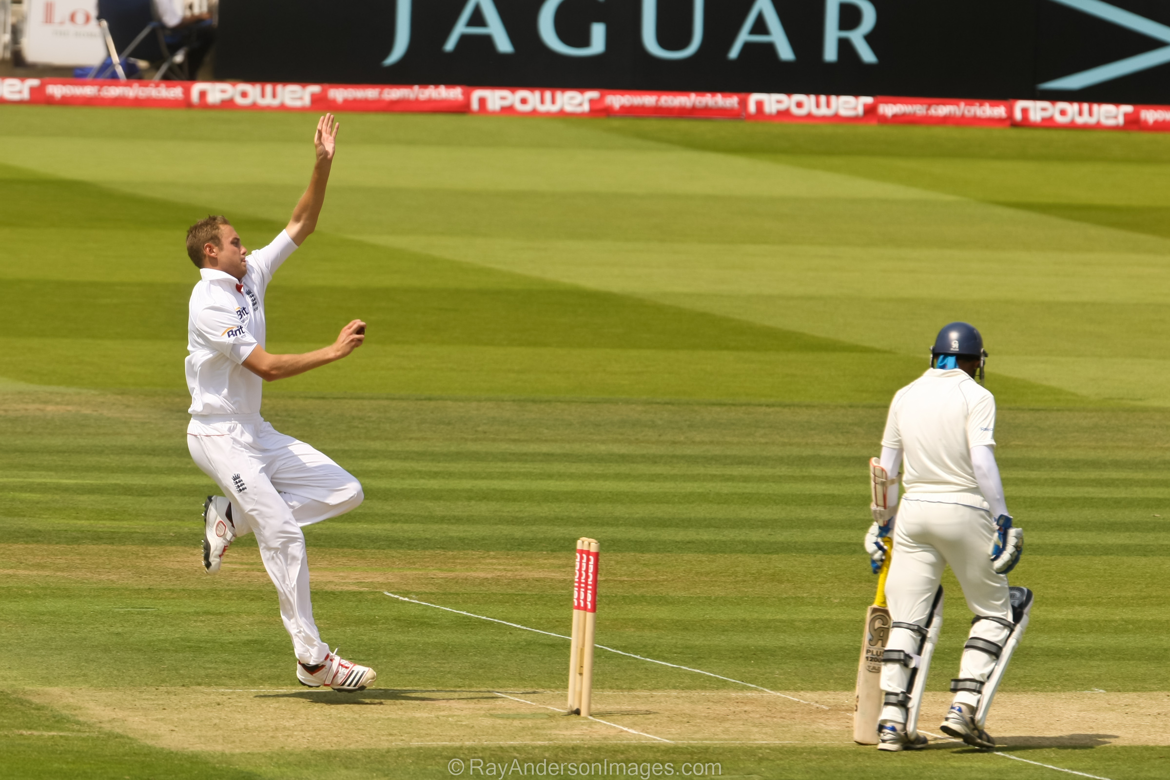 Stuart Broad bowling at Lord's in the second Test against Sri Lanka. Scorecard.